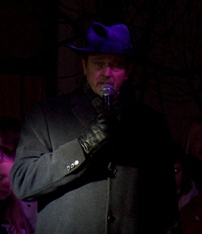 Raimo Ronkainen, the current mayor of Tornio, Finland.